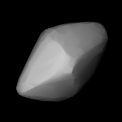 3D convex shape model of 1312 Vassar, computed using light curve inversion techniques. J. Hanuš, J. Ďurech, M. Brož, B. D. Warner (June 2011). "A study of asteroid pole-latitude distribution based on an extended set of shape models derived by the lightcurve inversion method". Astronomy and Astrophysics 530: A134. ISSN 0004-6361. arXiv